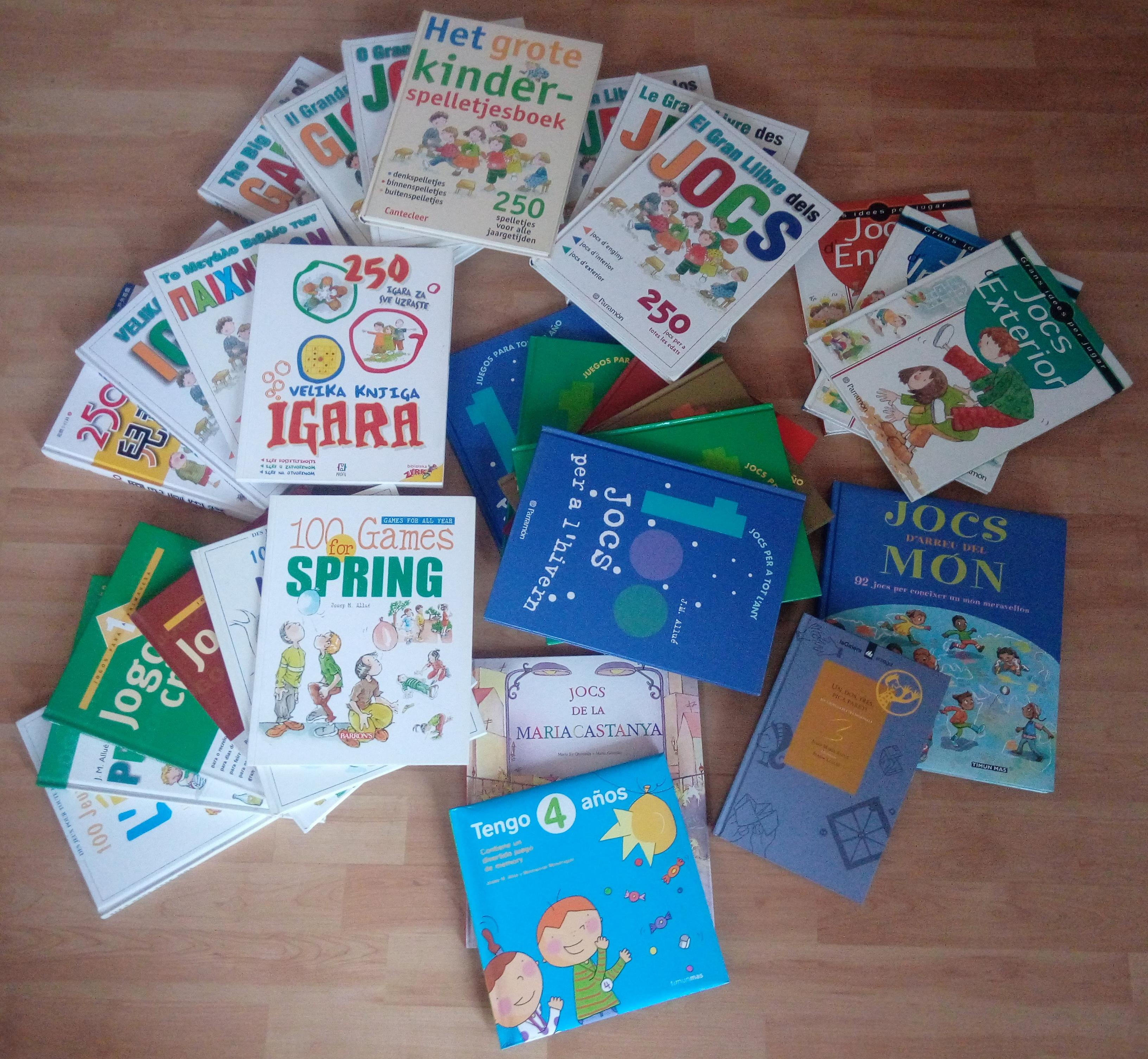 Selection of books written by Josep M. Allué